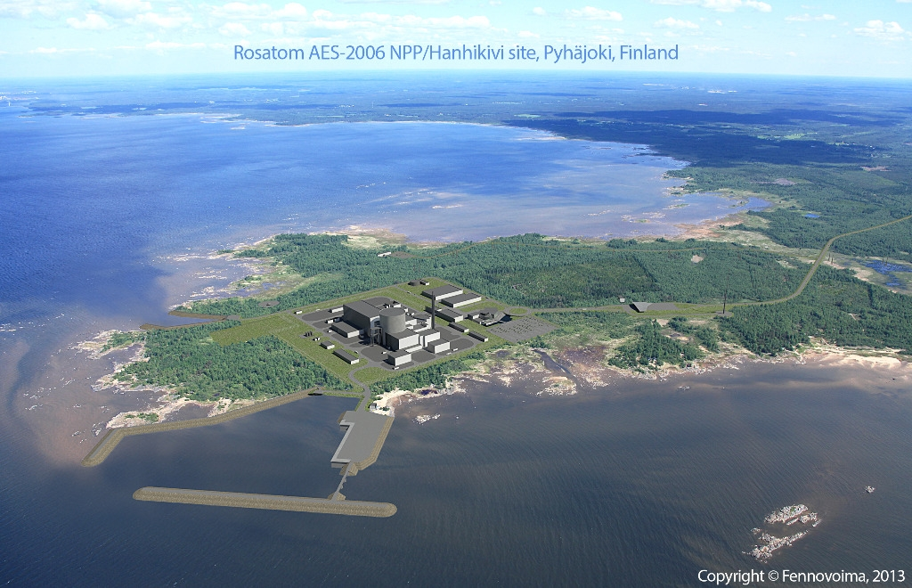 Illustration of Fennovoima's Hanhikivi 1 power plant based in Northern Finland.